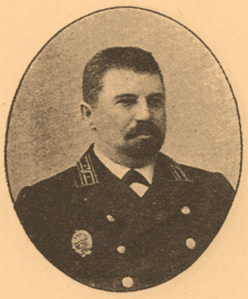 Illustration from Brockhaus and Efron Encyclopedic Dictionary (1890—1907)